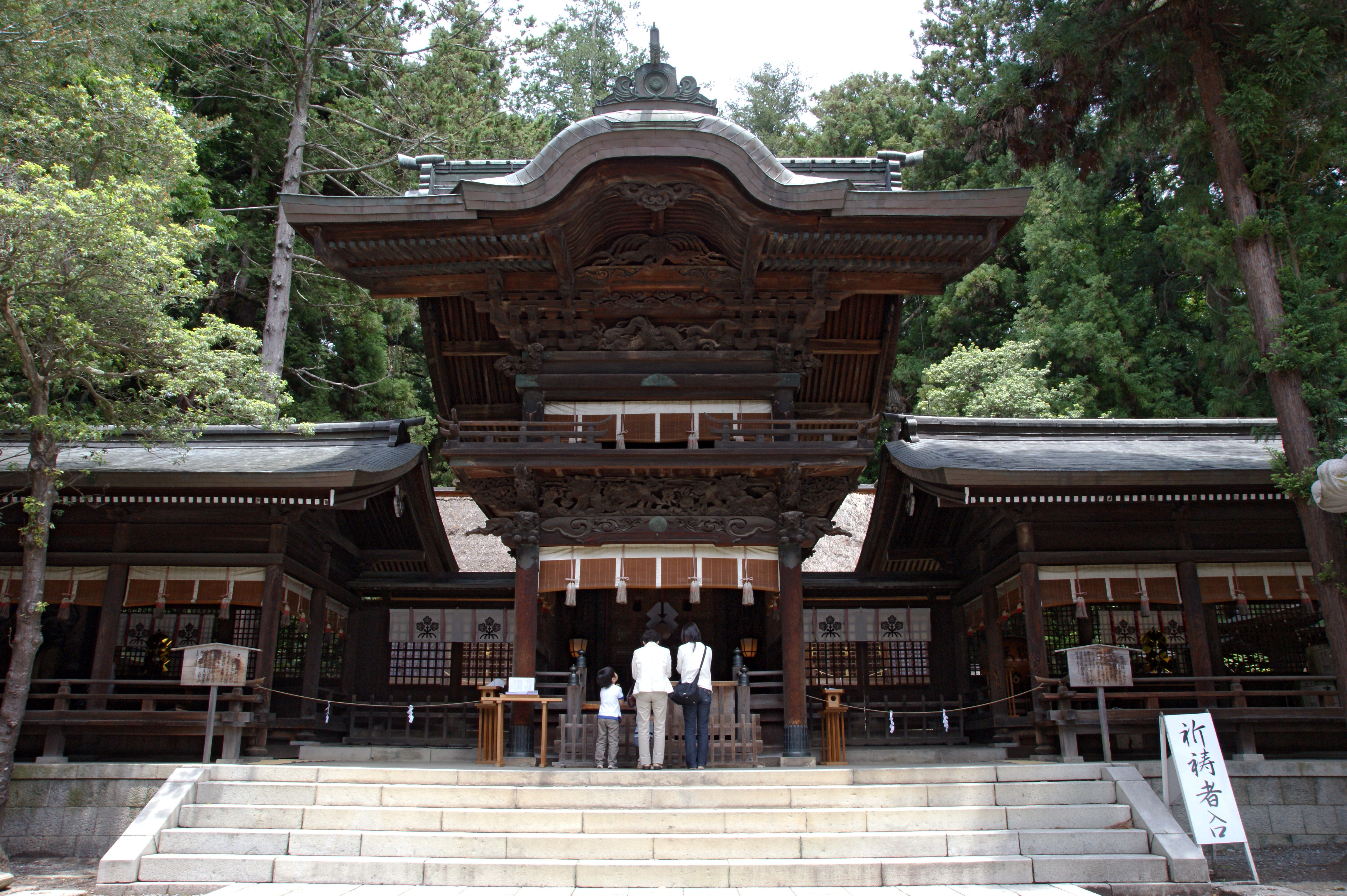 Suwa Taisha Shimosha Akimiya, Shimosuwa, Nagano prefecture, Japan